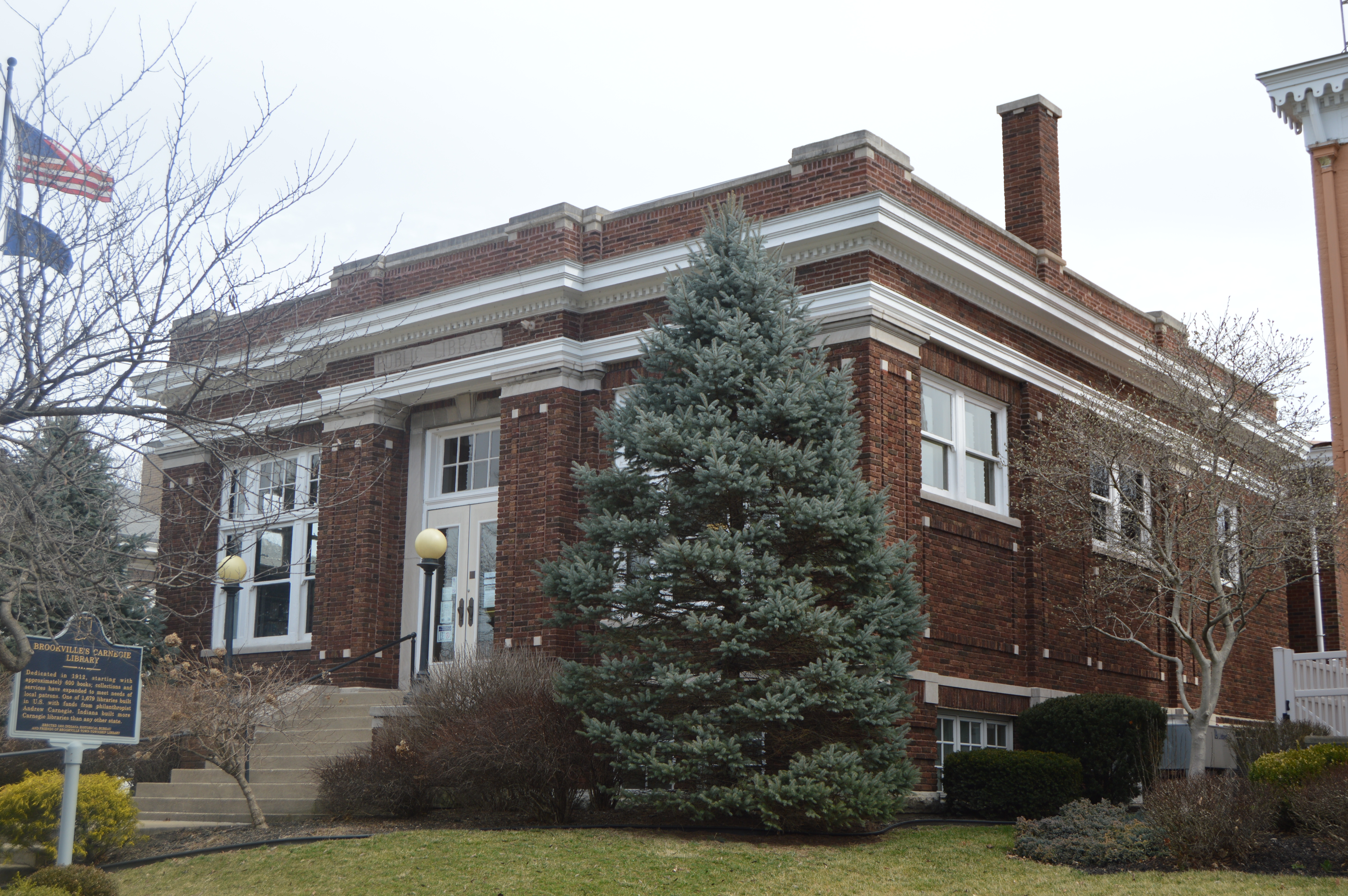 Front and southern side of the Brookville Carnegie Library, located at 919 Main Street (U.S. Route 52/State Road 1) in Brookville, Indiana, United States. Built in 1912, it is part of the Brookville Historic District, a historic district that is listed on the National Register of Historic Places.